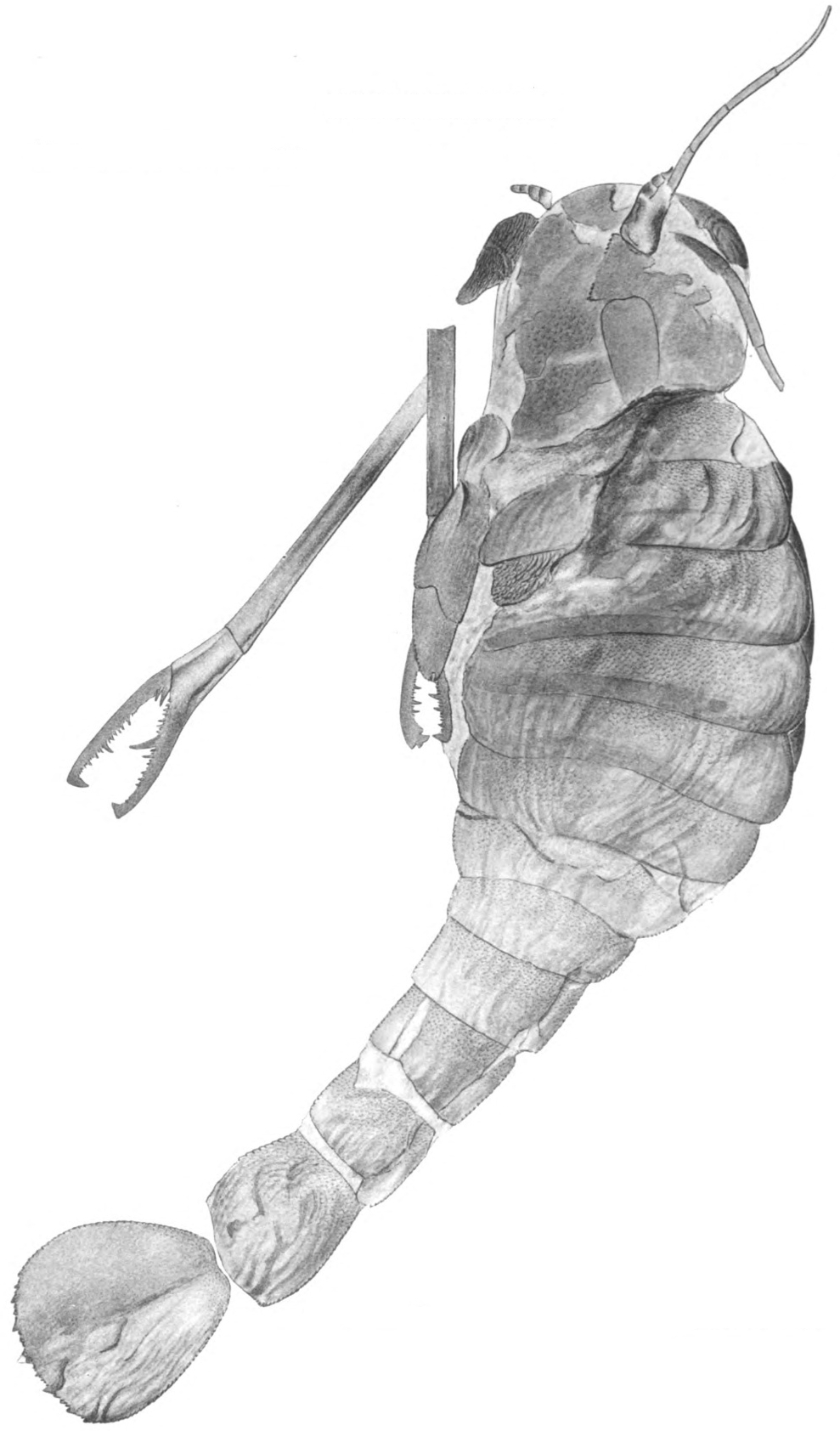 Acutiramus (Pterygotus) buffaloensis. The Eurypterida of New York. Volume 2. New York State Museum Memoir 14, plate 75